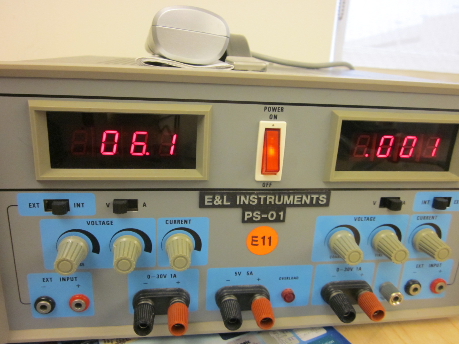 Power supply